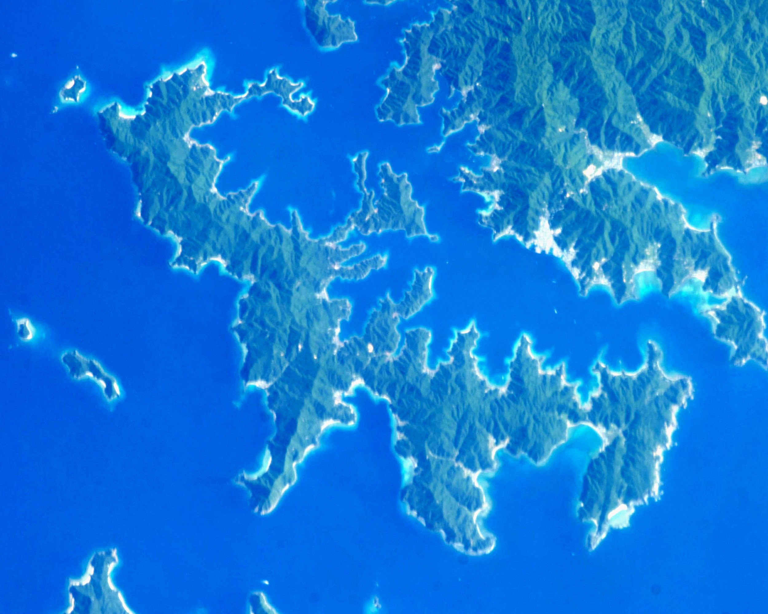 Kakeroma Island, Kagoshima prefecture, Japan.